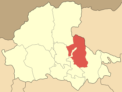 Locator map of Kyrrou municipality (Δήμος Σκύδρας) at Pellas perfecture, Macedonia, Greece.